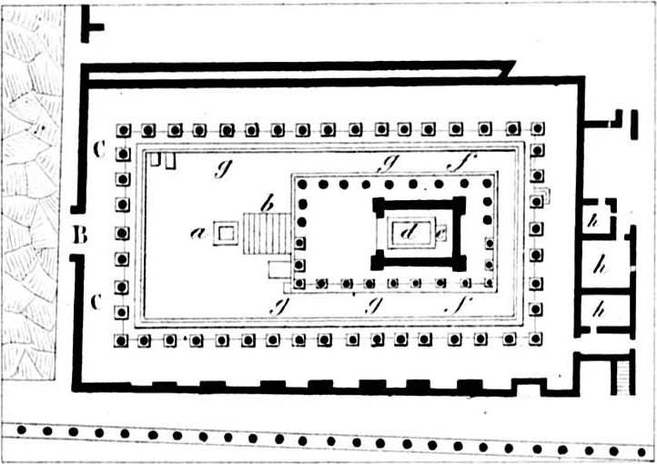 Temple of Apollo, Regio VII, Insula 7, Pompeii, plan.